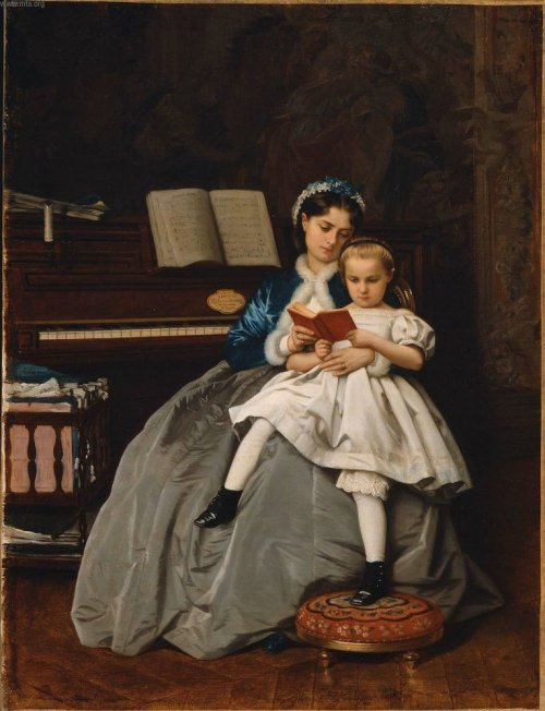 Unknown description